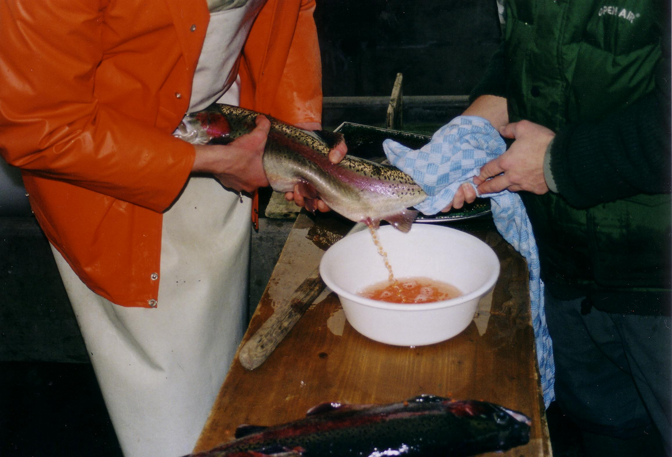 fish in a fishing farm